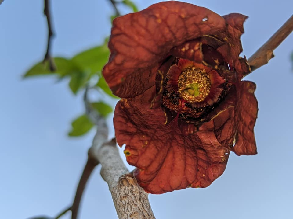 Asimina triloba flower showing pollinators